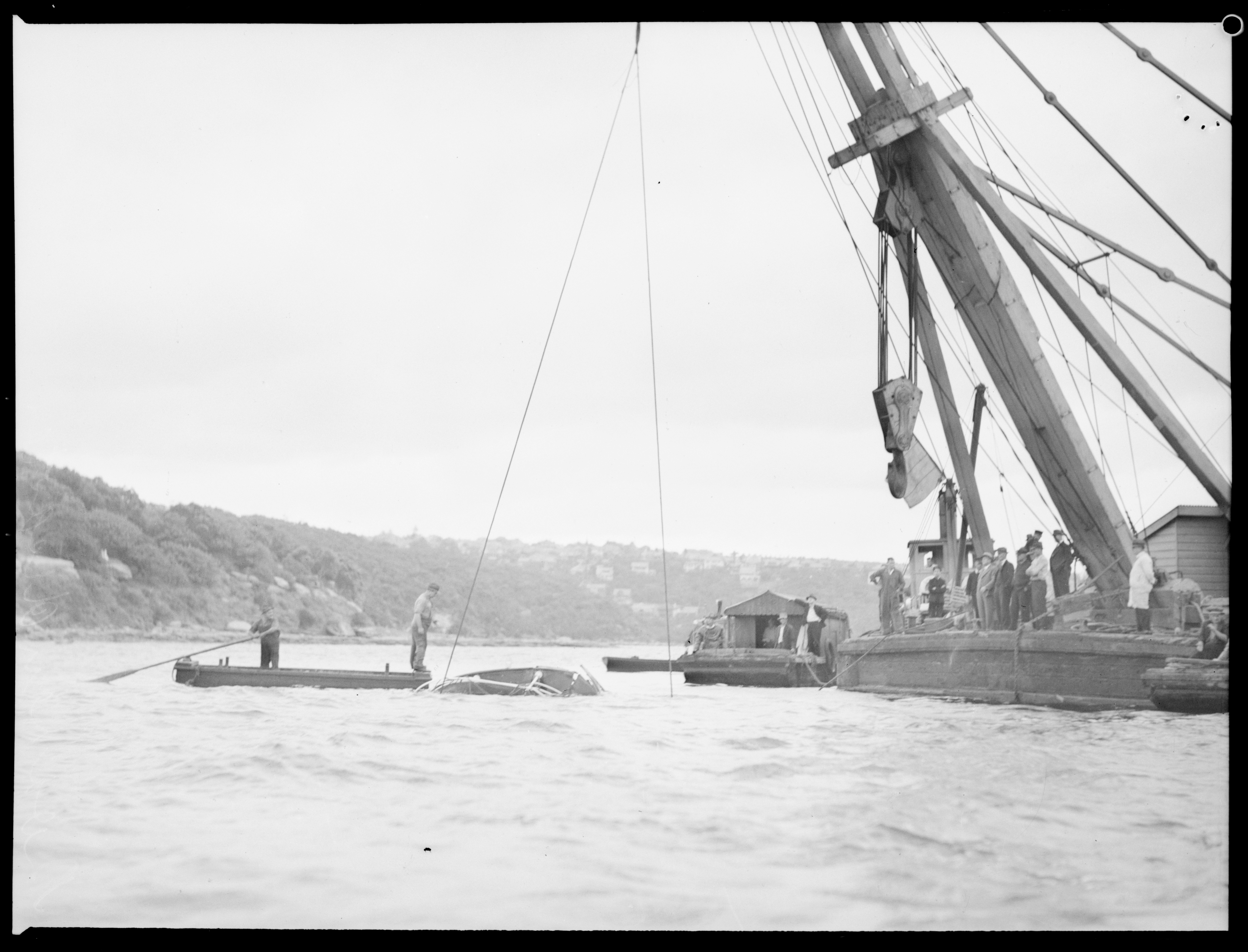 Sydney Ferry RODNEY being raised following capsize and sinking February 1938. from Mitchell Library.